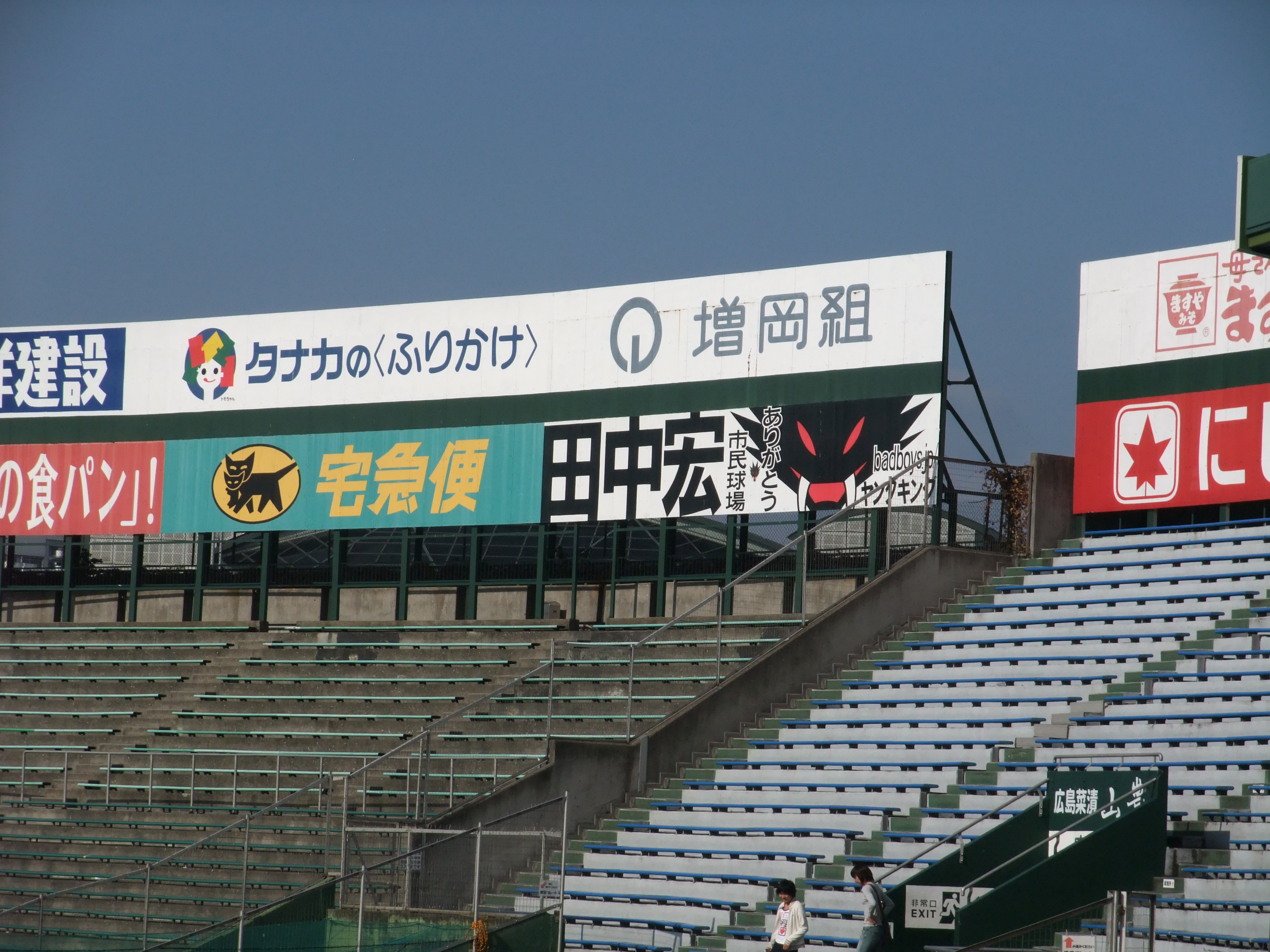 Hiroshima Municipal Stadium Hiroshi Tanaka's advertisement